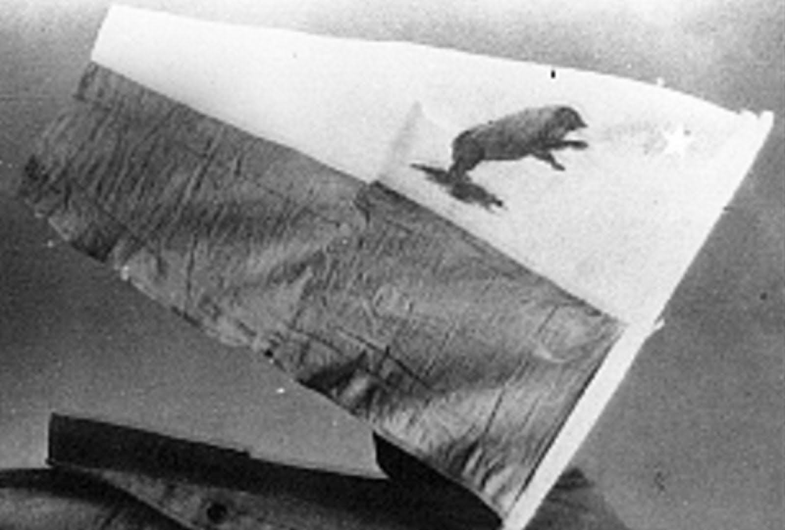 The Original Storm Flag — with a California grizzly bear as a symbol of strength and unyielding resistance. Bear flags were briefly used in 1846 by American settlers of the California Republic episode, in the former Mexican department of Alta California. Original black and white image from the mid-Nineteenth century of the first bear flag, by Peter Storm, according to some witnesses. It preceded the Todd flag by a week. The flag may have been lost in the San Francisco fire which also burned the Todd flag, or a second or same flag may have been buried with Mr. Storm.